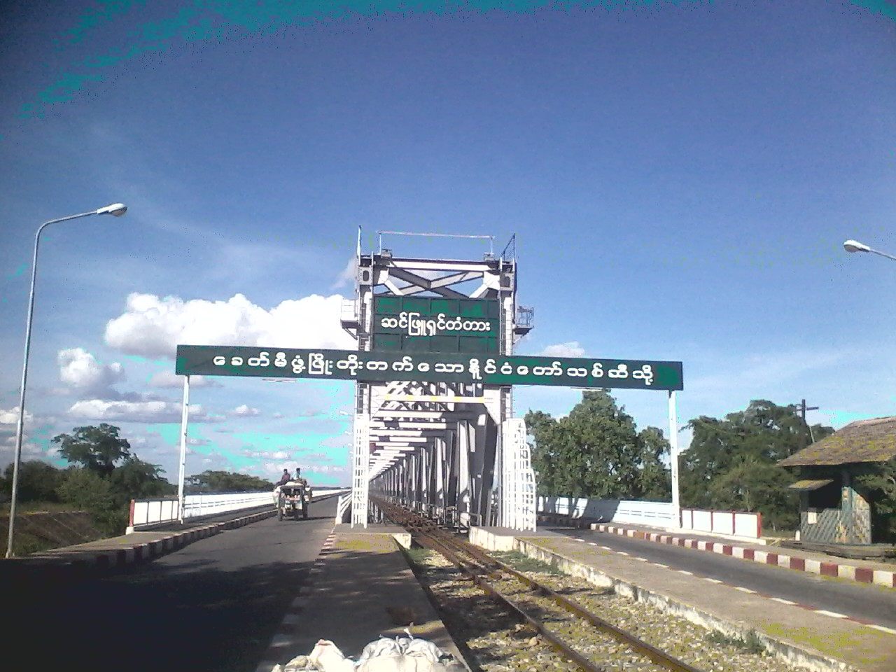 Shin Phyu Shin Bridge of Advantages for people in Chaung-U Township